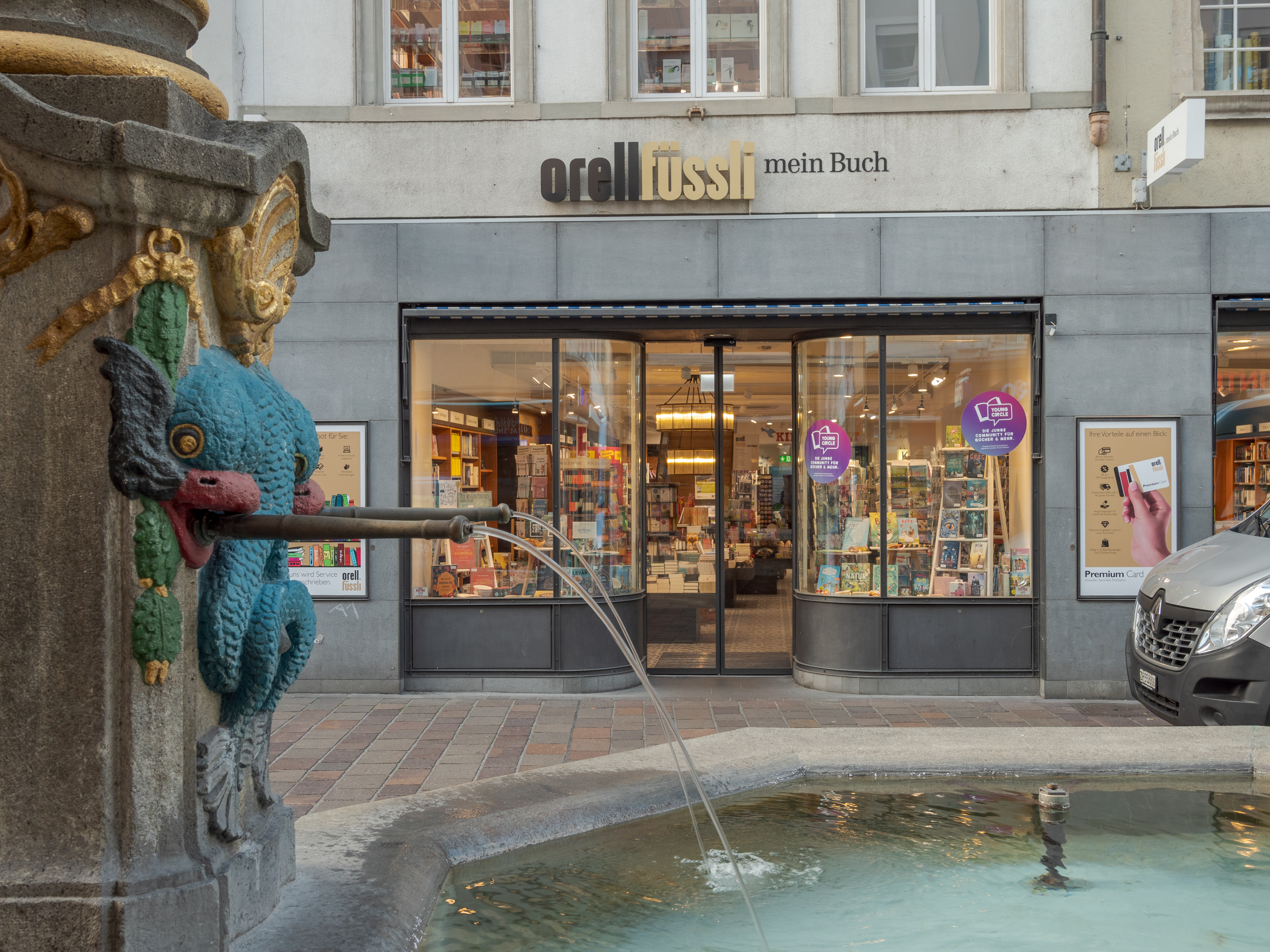 Winterthur: Orell Füssli bookshop behind fountain of justice.